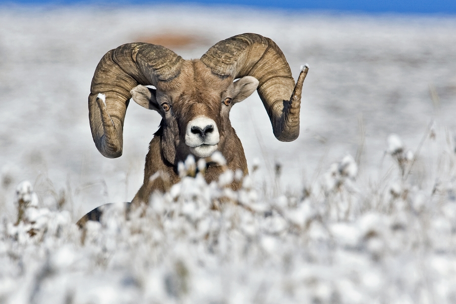 Big Horn Sheep (Male), Near Jasper, Alberta